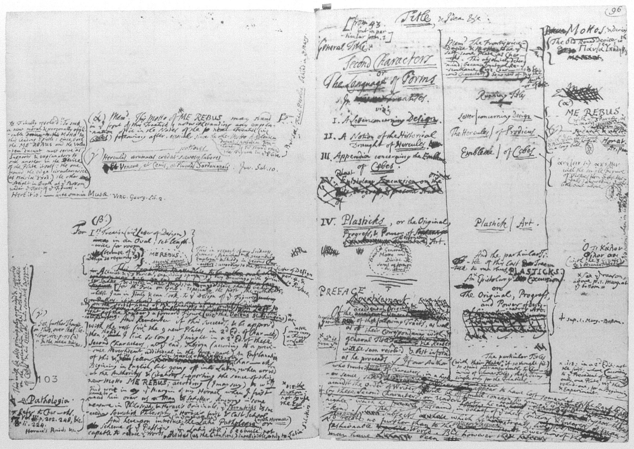 An autograph draft of the structure of Shaftesbury's intended publication Second Characters on the „Language of Forms“ in the visual arts. London, Public Record Office, PRO 30/24/27/15.